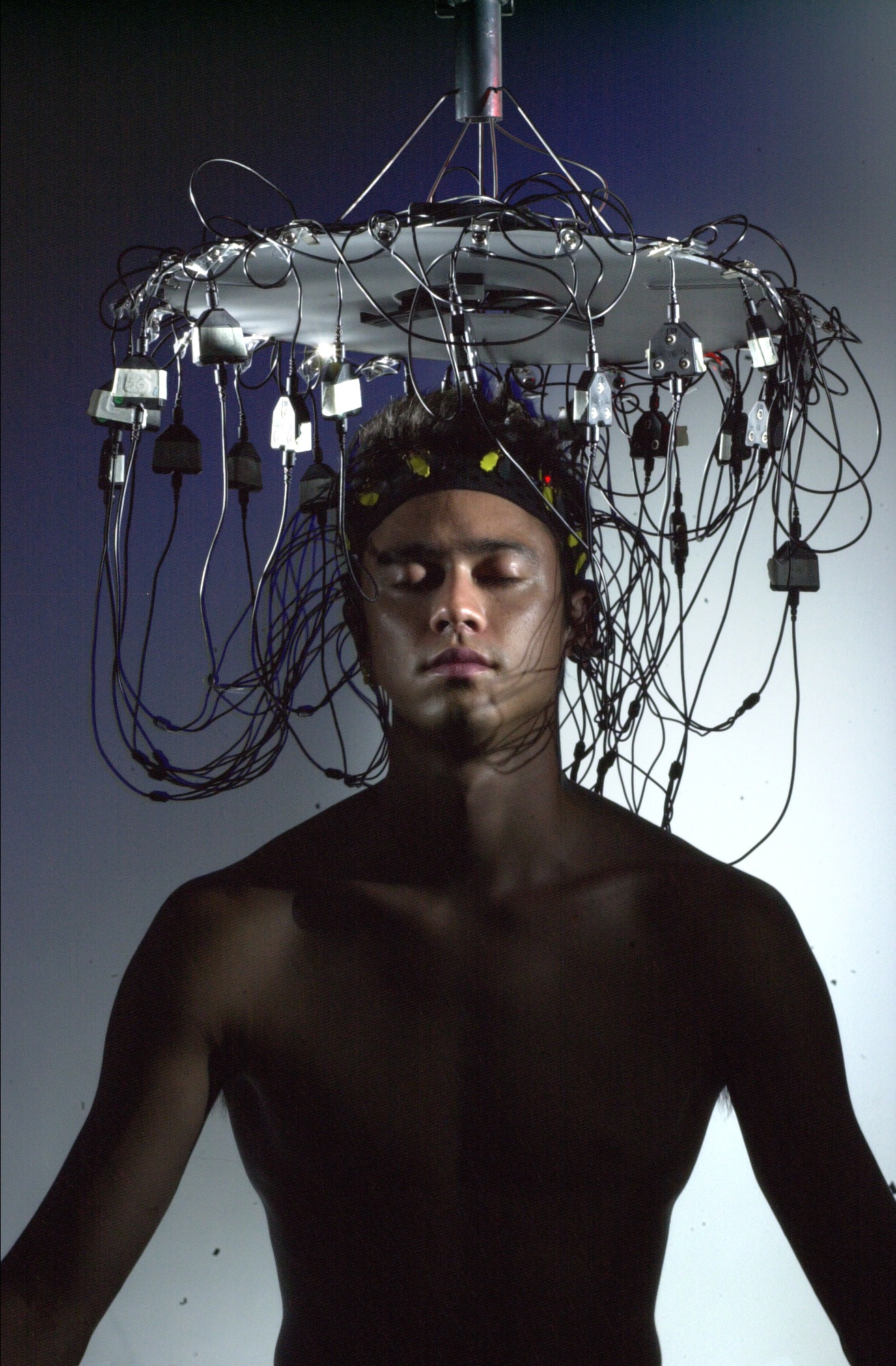 Quintist Chris Aimone